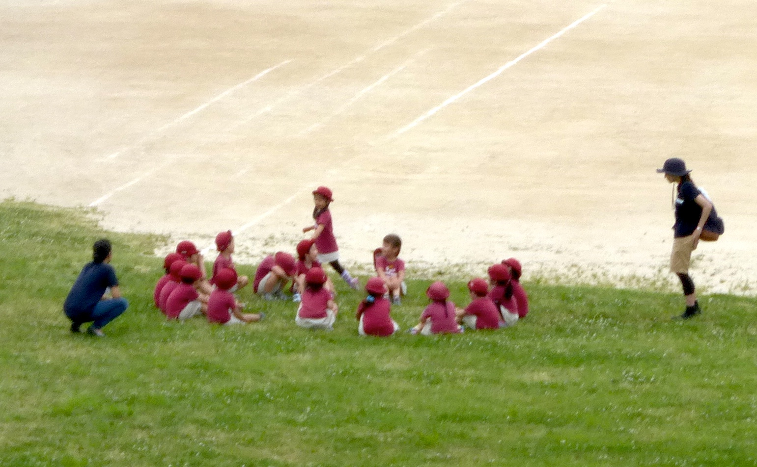 Japanese kids playing a type of "Duck duck goose"